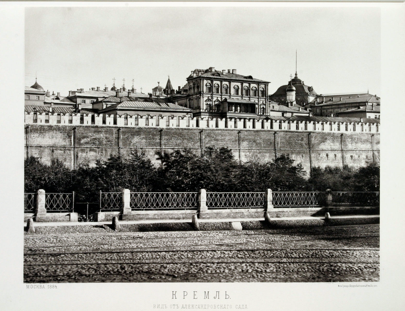 Plate 3. The Kremlin and Alexandrovsky Garden.